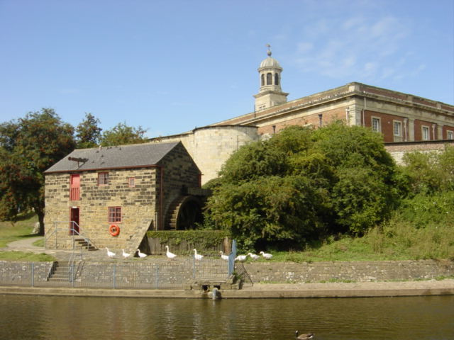 The relocated Raindale Mill, York Castle Museum. Nine white geese making their way from the river in front of the restored water mill at the back of York Castle Museum. Photo taken from the Travelodge/Wetherspoons on the opposite bank.